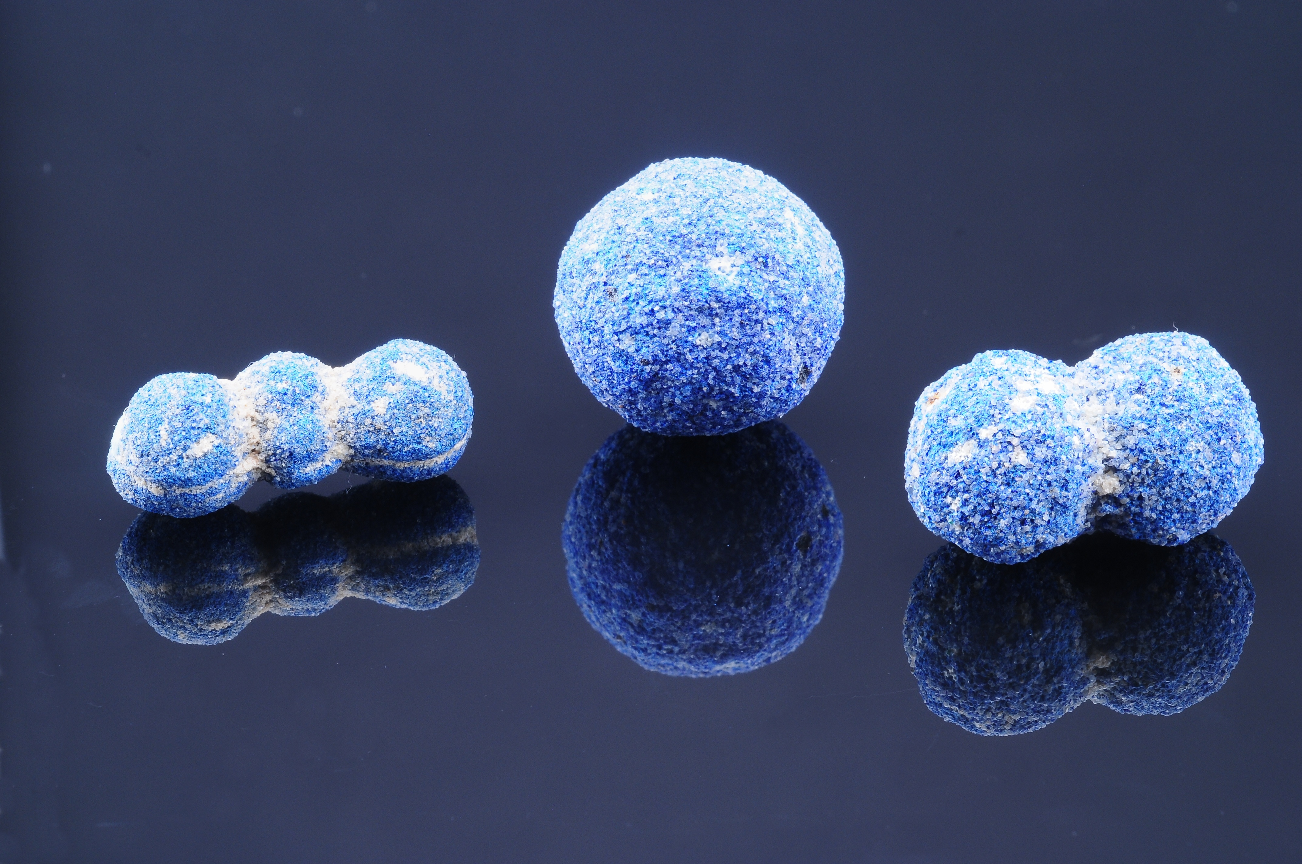 spheroidal azurite formations from a mine in the La Sal district of Utah